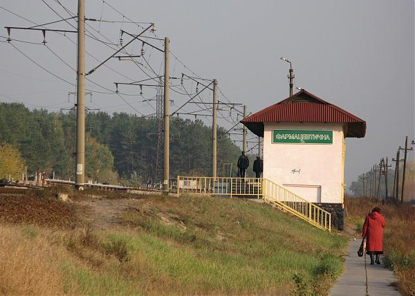 Farmatsevtychna Railway Halt in Kyiv, Ukraine